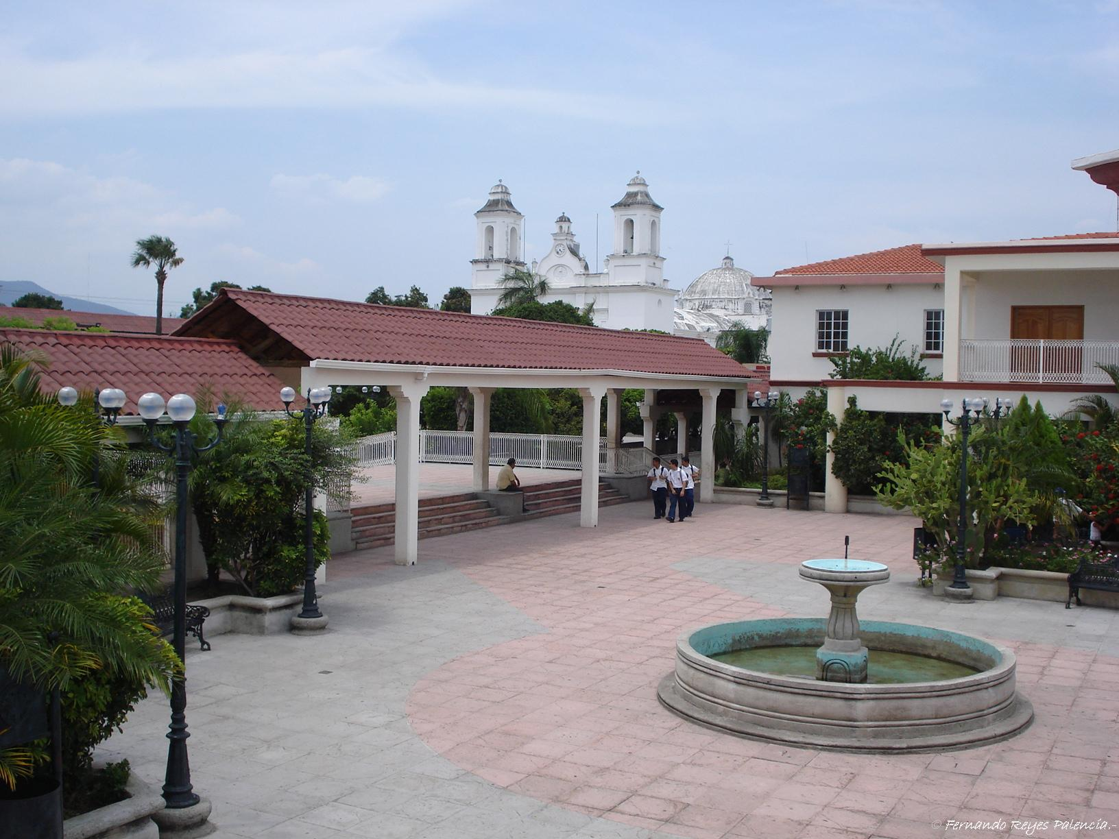 Zacapa, Guatemala - Central Park